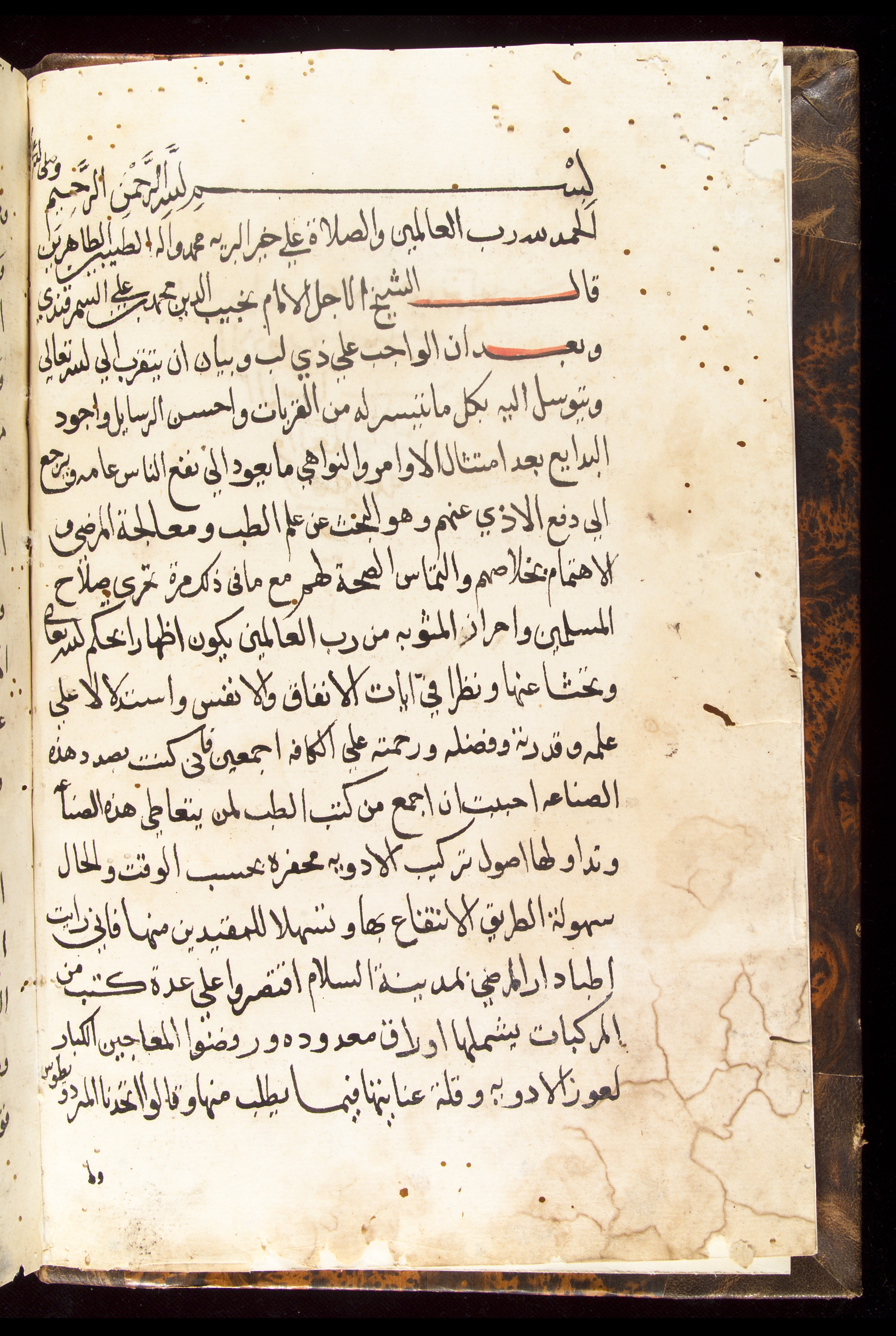 Page from Aqrabadin, an Arabic medical text in naskh script, Asian Collection Keywords: Arabic